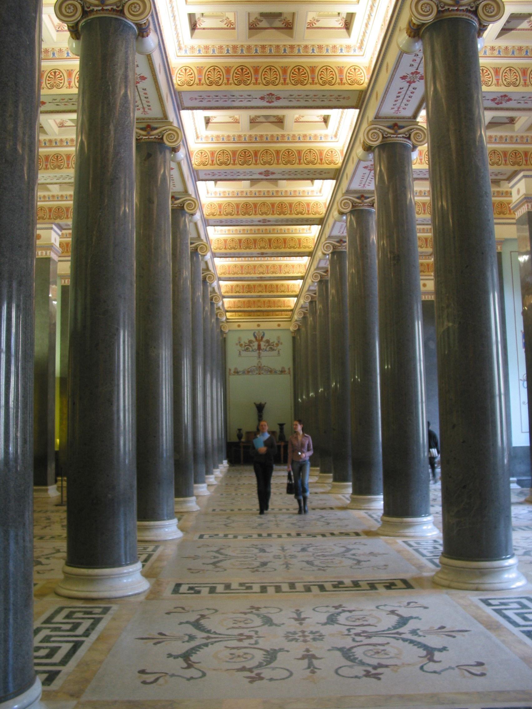 The Twenty-Column Hall of the Hermitage Museum